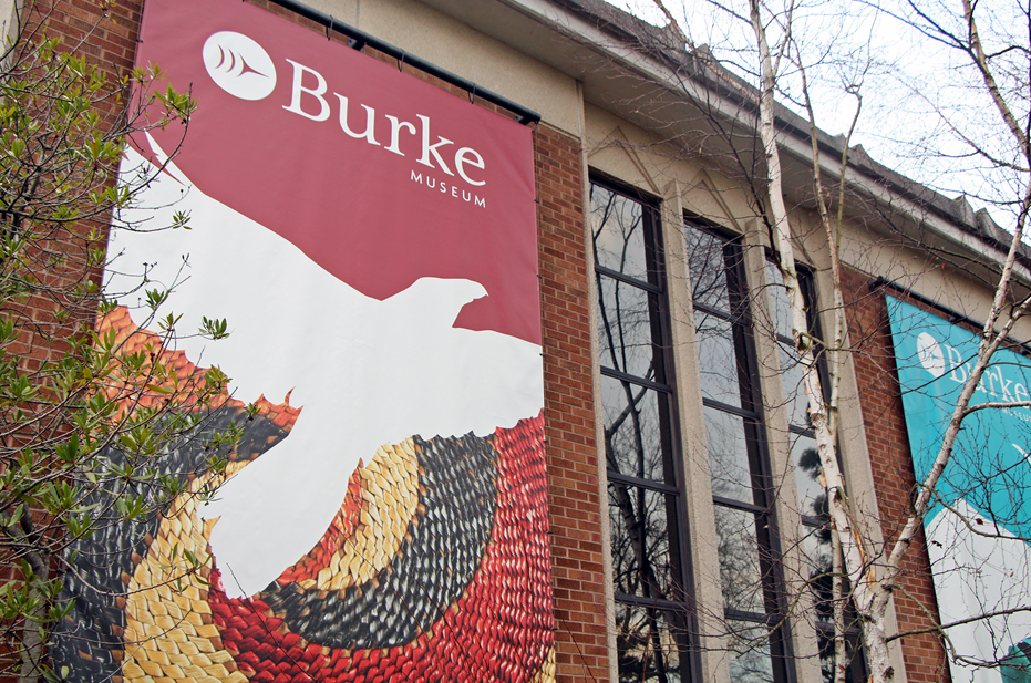 exterior of the Burke Museum in Seattle, Washington